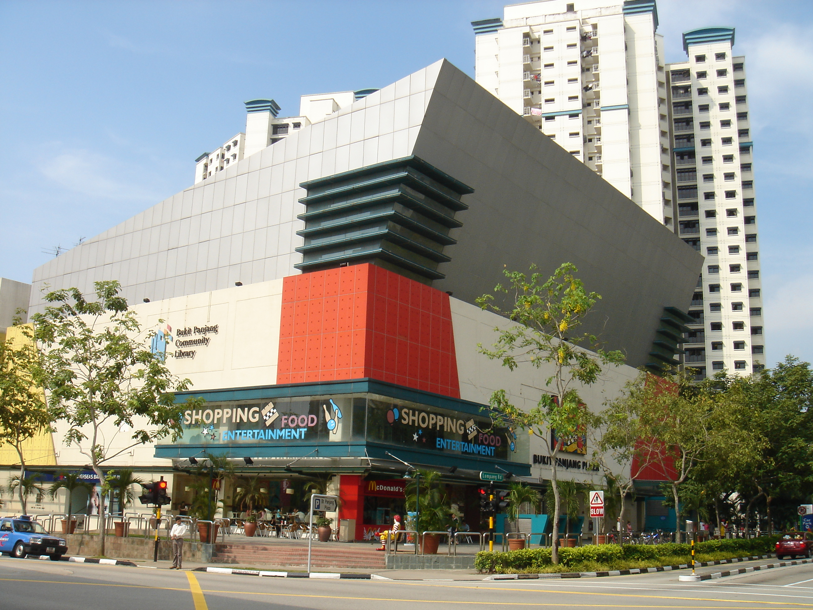 Bukit Panjang Plaza before extension works with HDB housing in background. Bukit Panjang, Singapore.